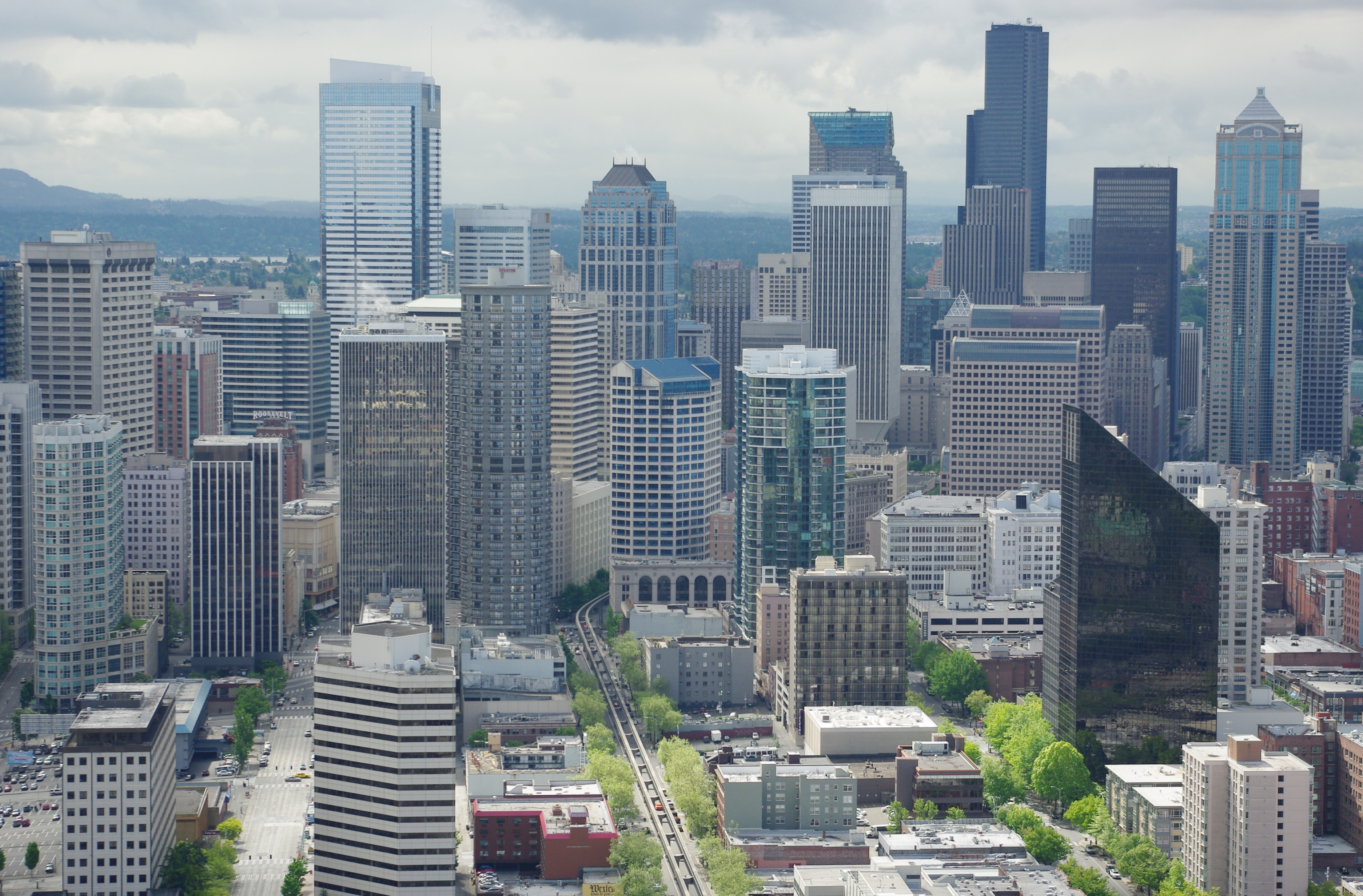 Downtown skyline in Seattle viewed from the Space Needle